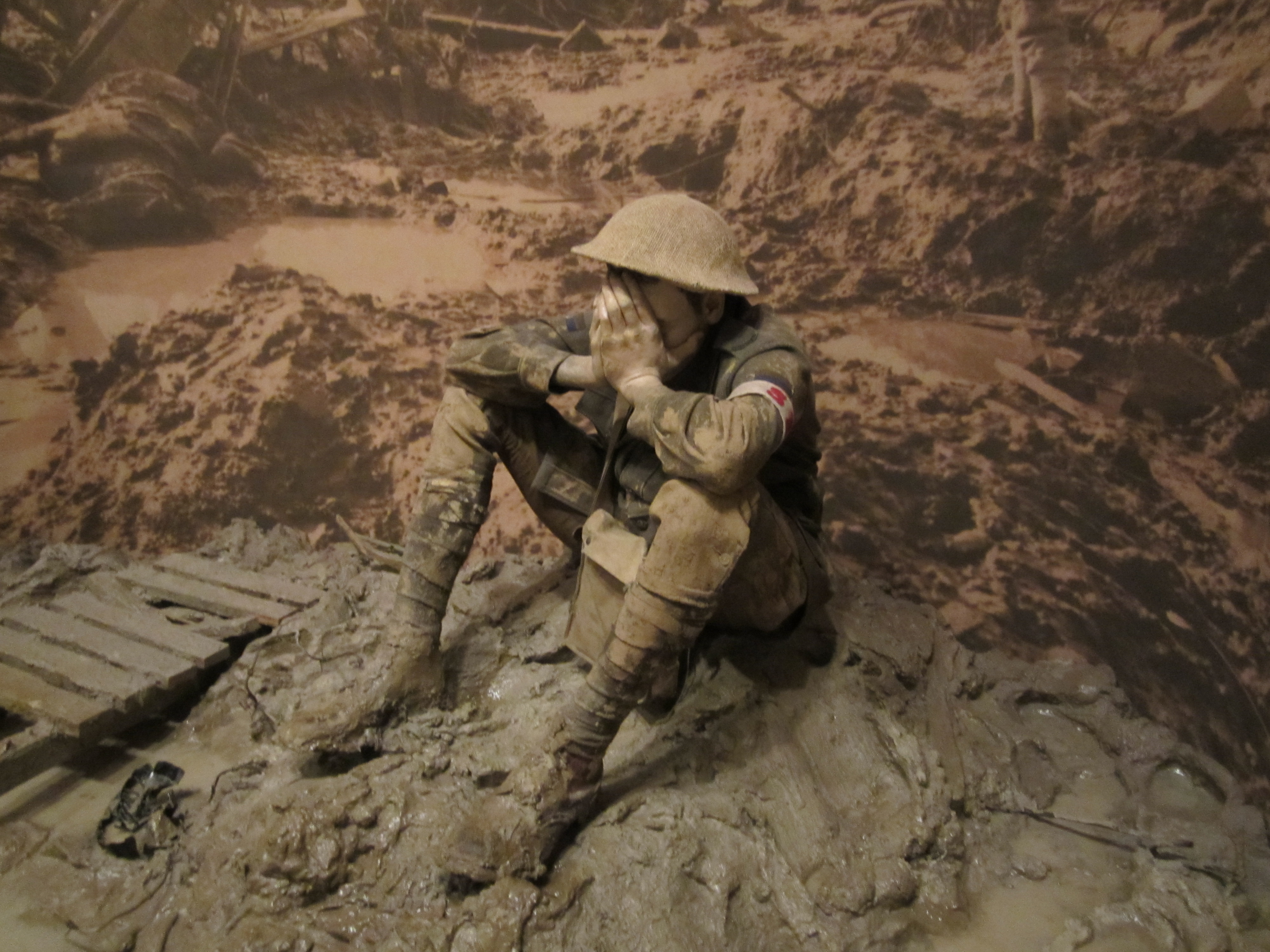 Peter Corlett's 'Man in the mud' sculpture in the Australian War Memorial in August 2012